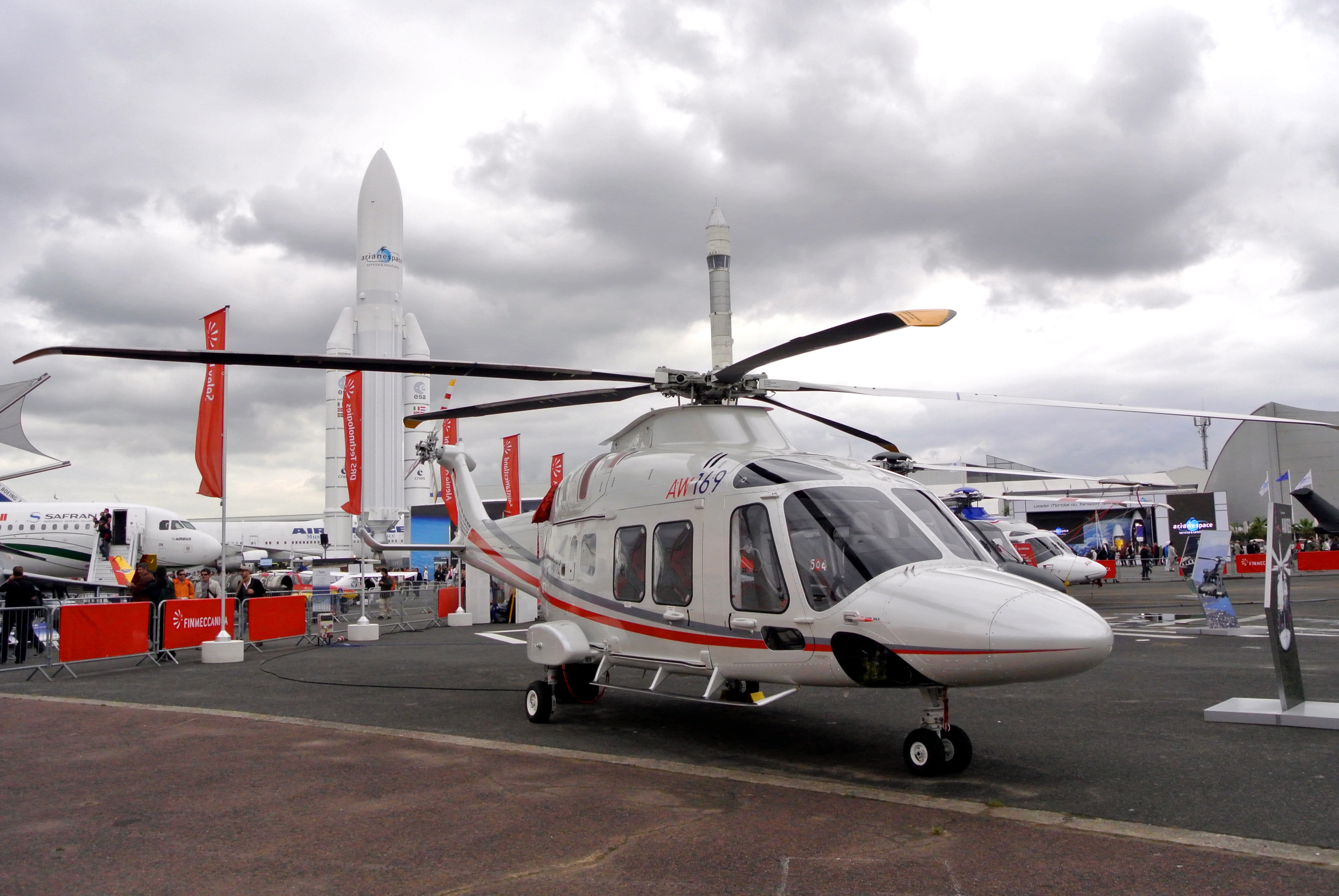 Agusta Westland AW169 at the 50th Paris/Le Bourget Airshow;2013